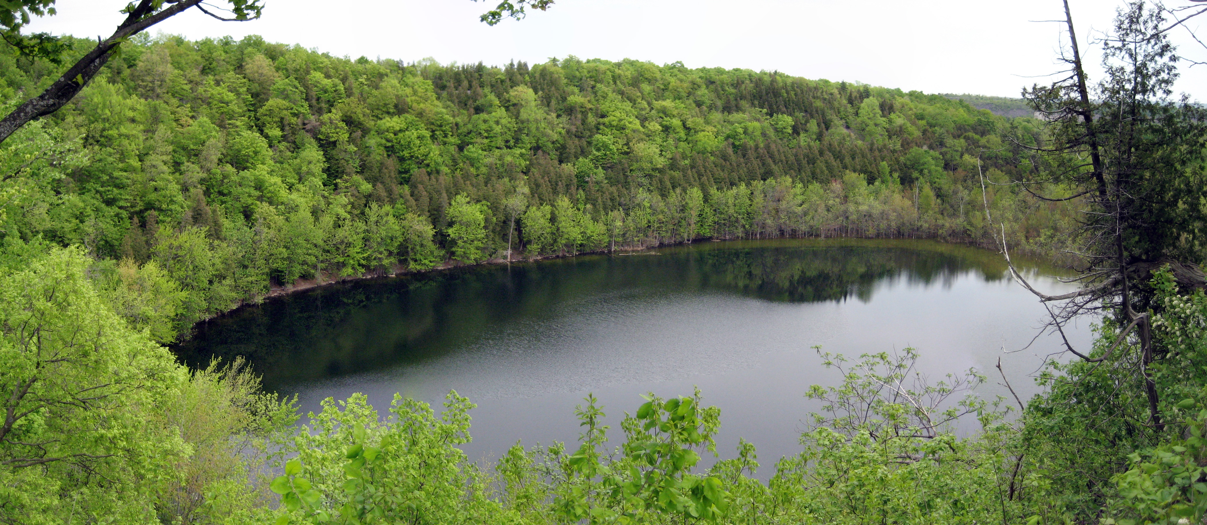 A view from the overlook at Clark Reservation of the Glacial Lake.